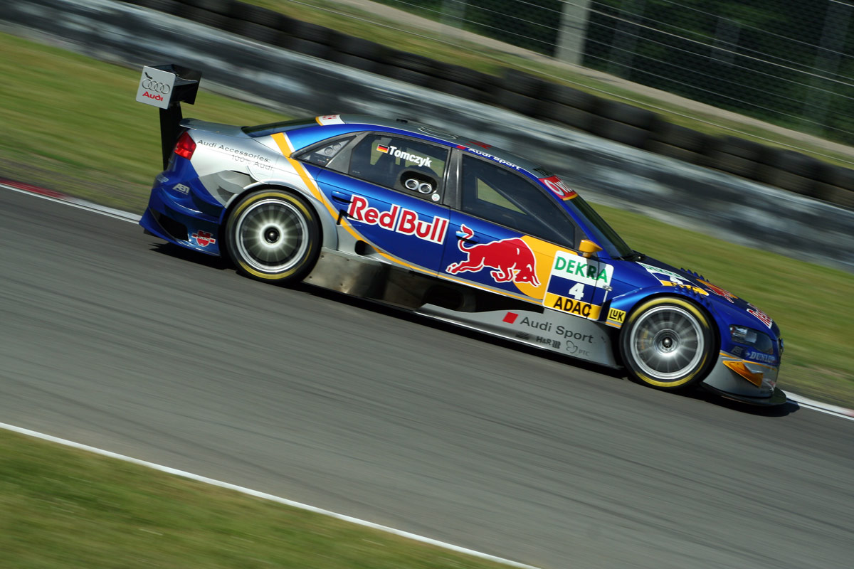 Martin Tomczyk driving for Audi in the 2006 Deutsche Tourenwagen Masters season.